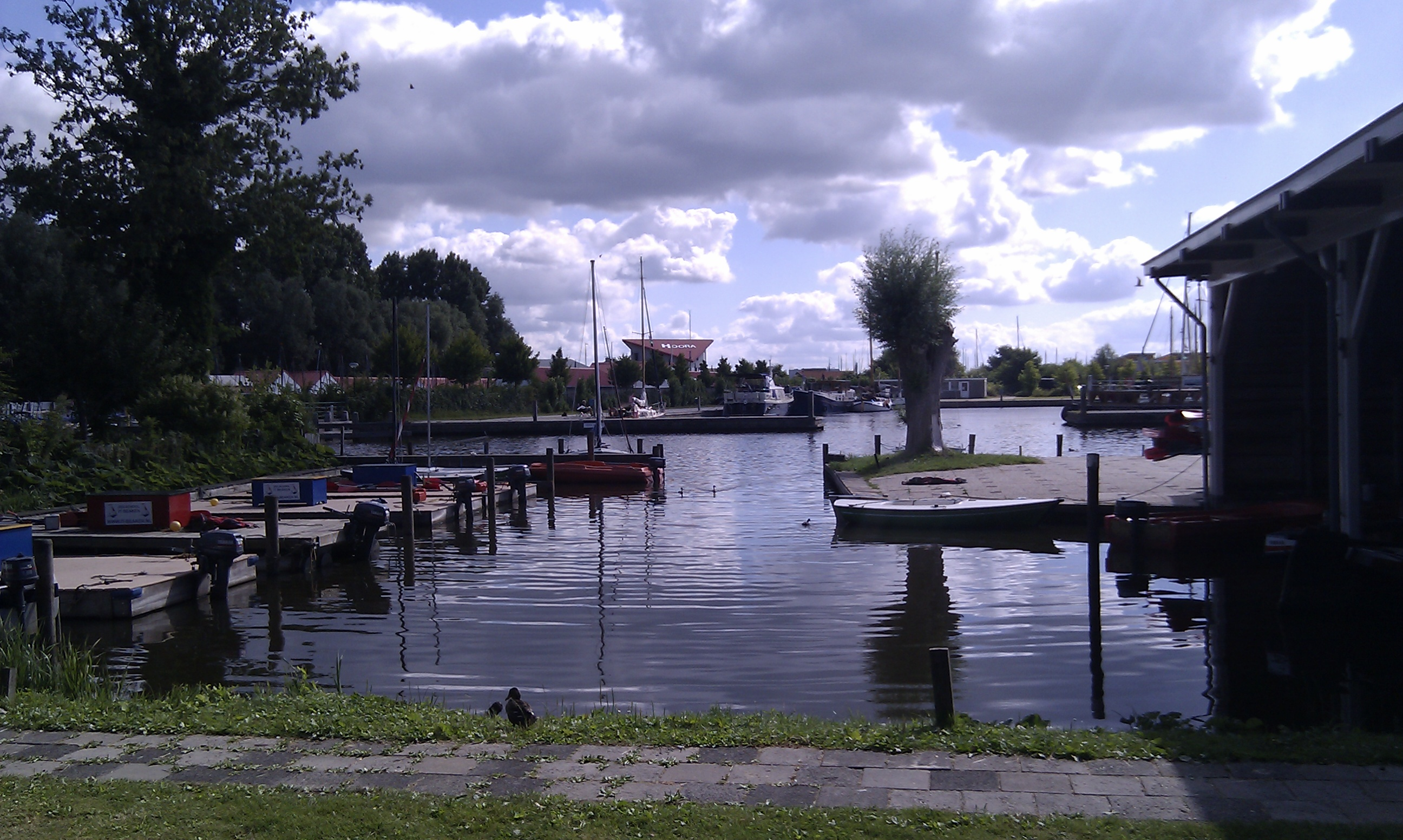 It beaken